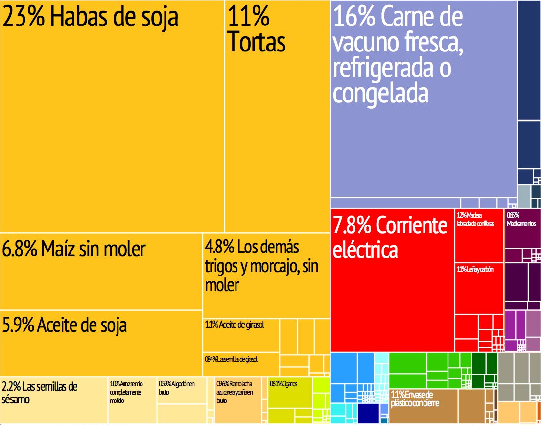 A proportional representation of Paraguay's exports.